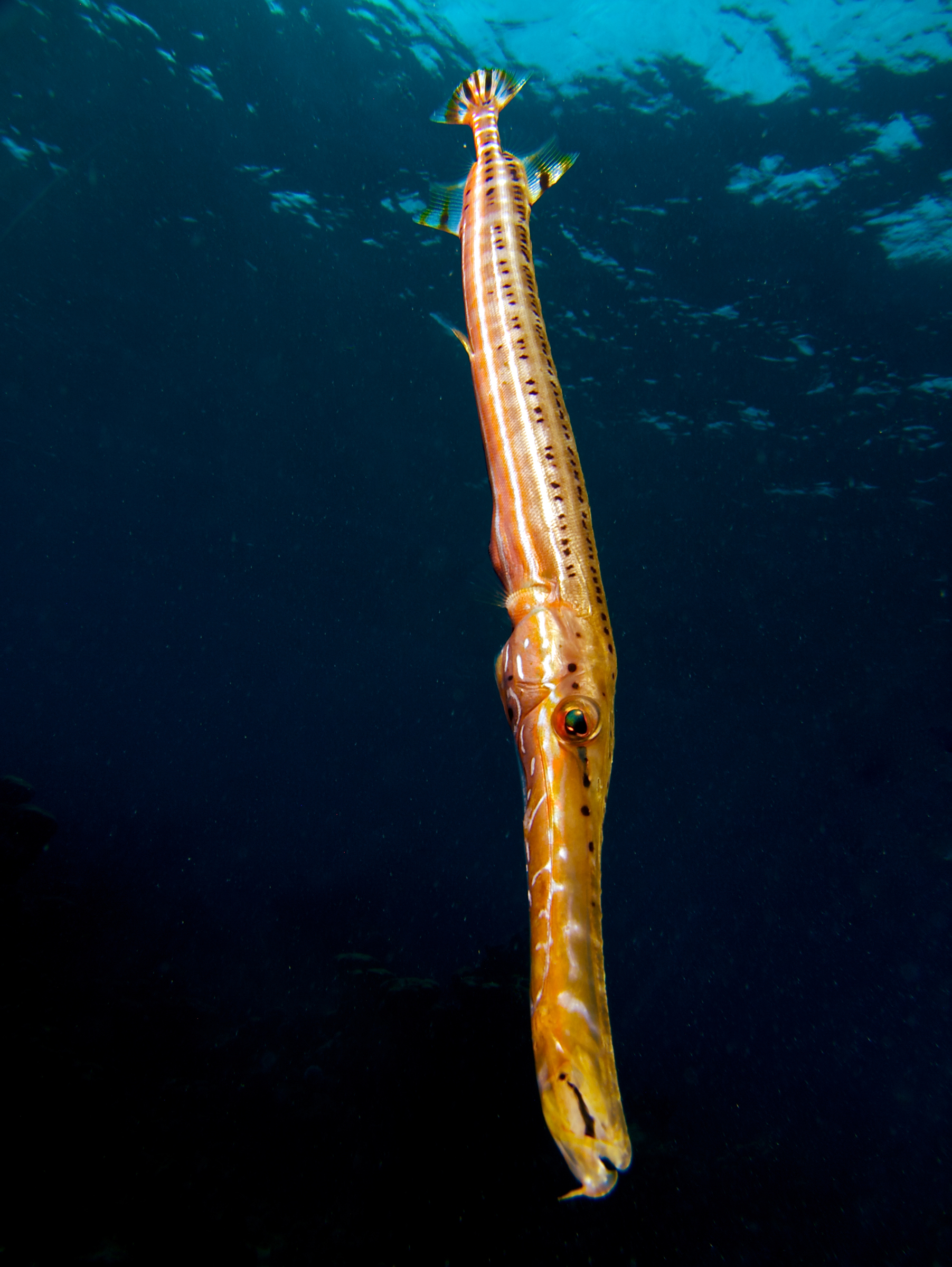 Aulostomus maculatus (Trumpetfish -brown variation).